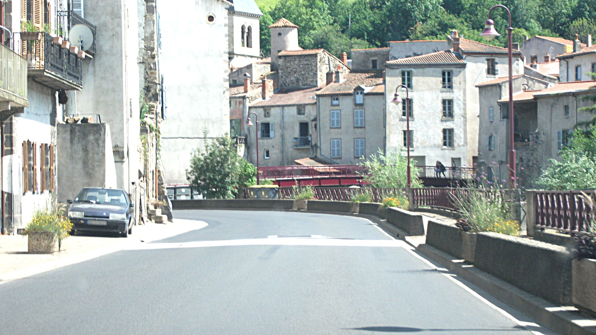 Departmental road 996 in Champeix towards Issoire.